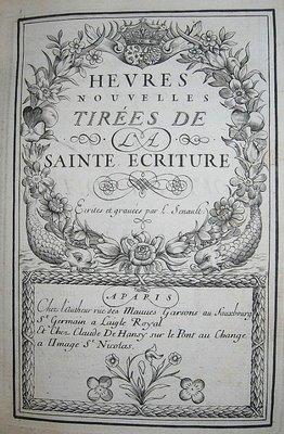 "Heures nouvelles dédiées à Mme la Dauphine"